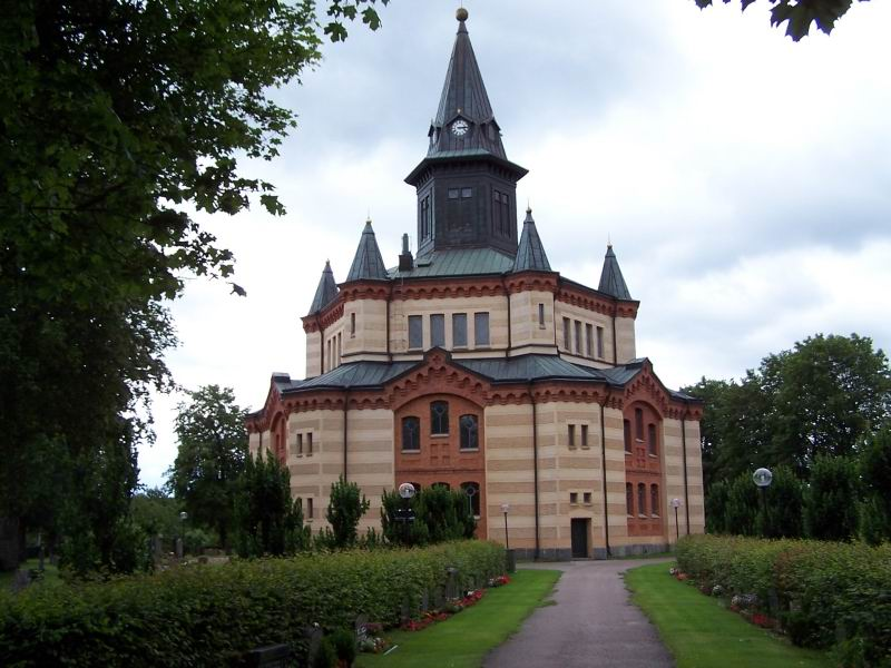 Örsjö church near Nybro, Sweden.